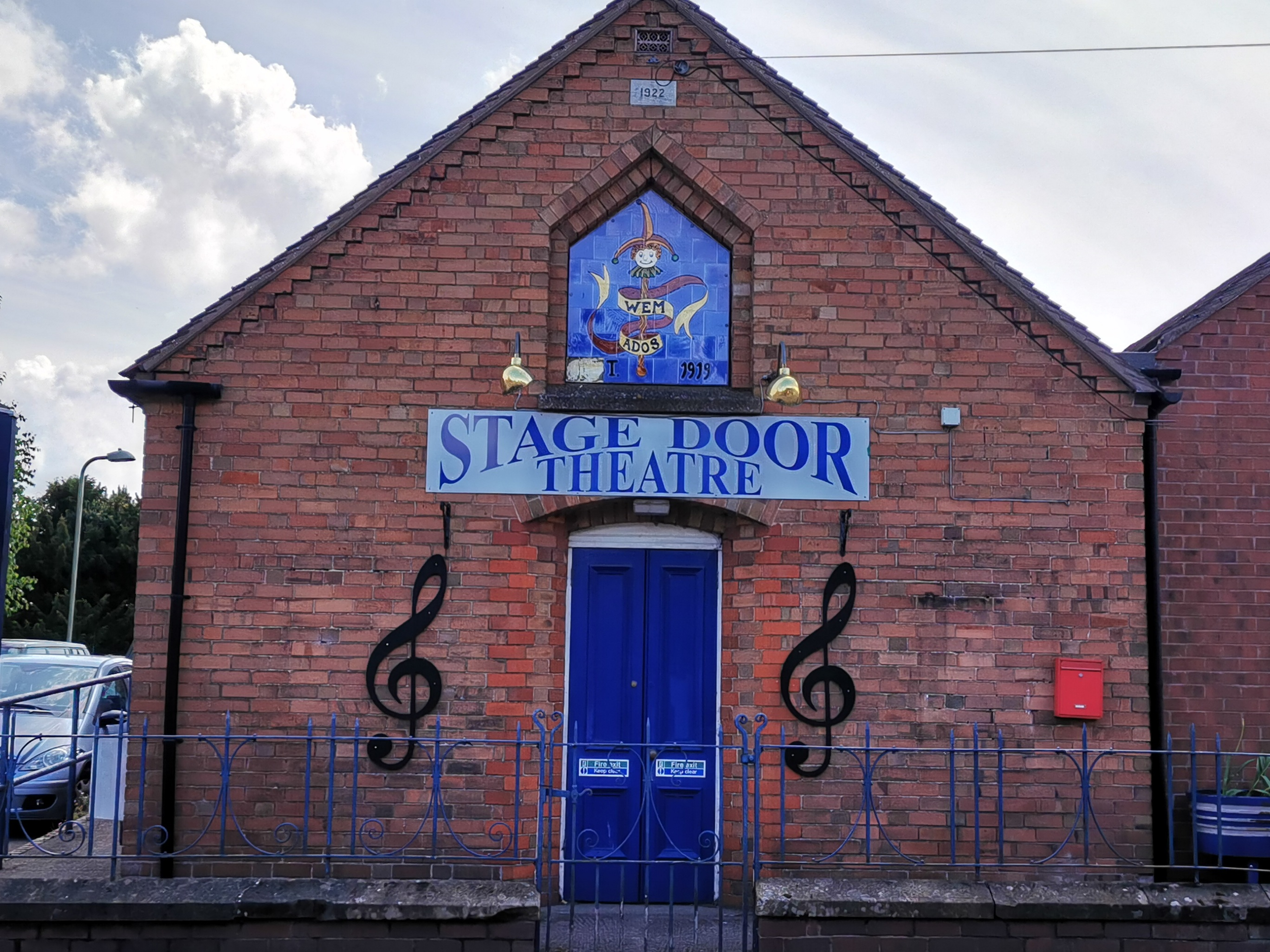 Wem AD Soc